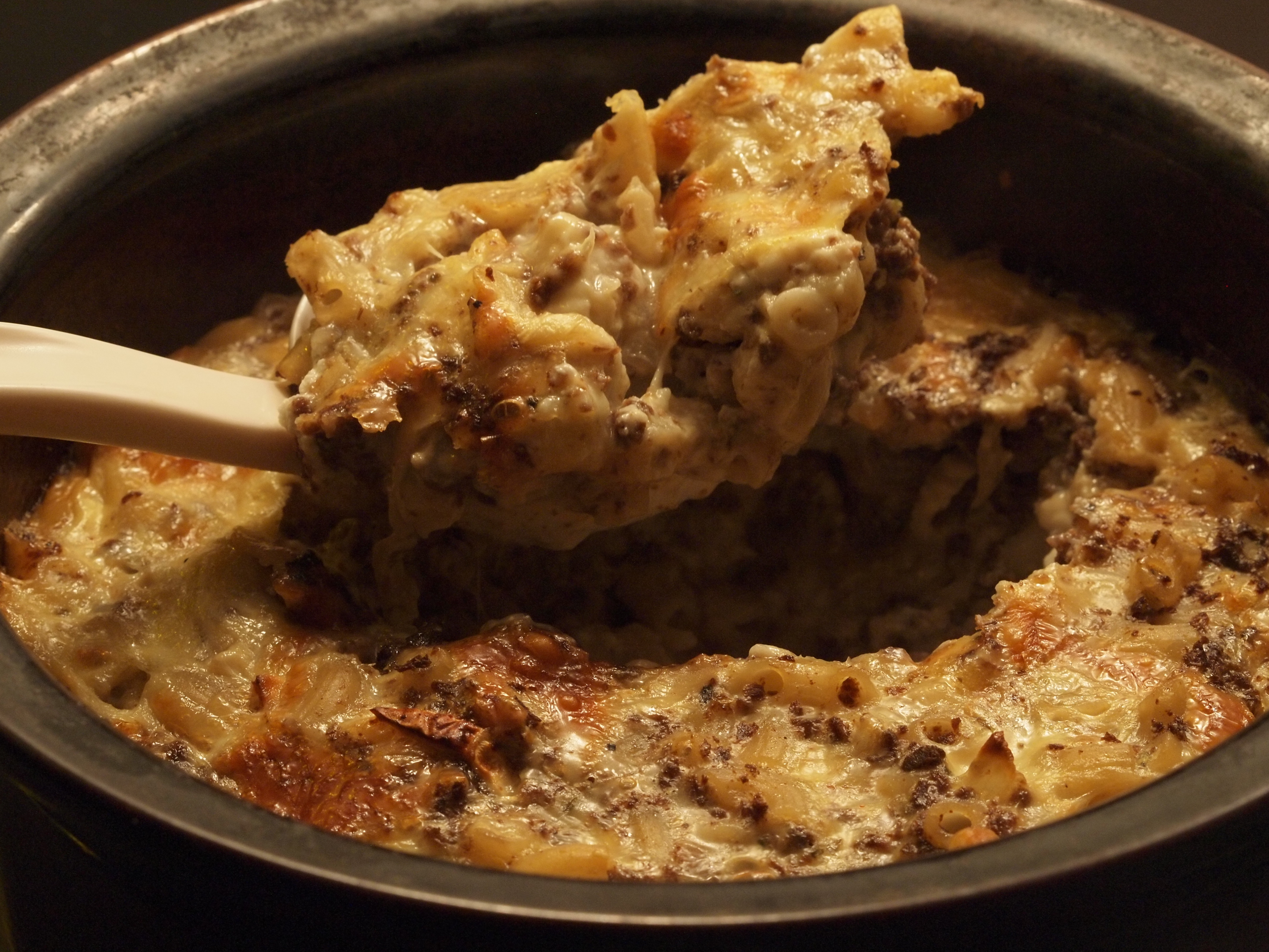 Quite typical pot of Finnish macaroni casserole made with textured soy and topped with cheese.